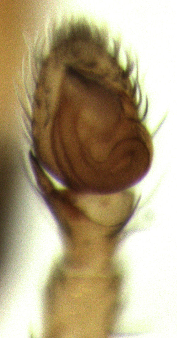 Nauhea tapa (male palp) [see fig. 262 on p. 61 of Forster, R.R.; Blest, A.D. 1979: The spiders of New Zealand. Part V. Otago Museum bulletin, (5)]